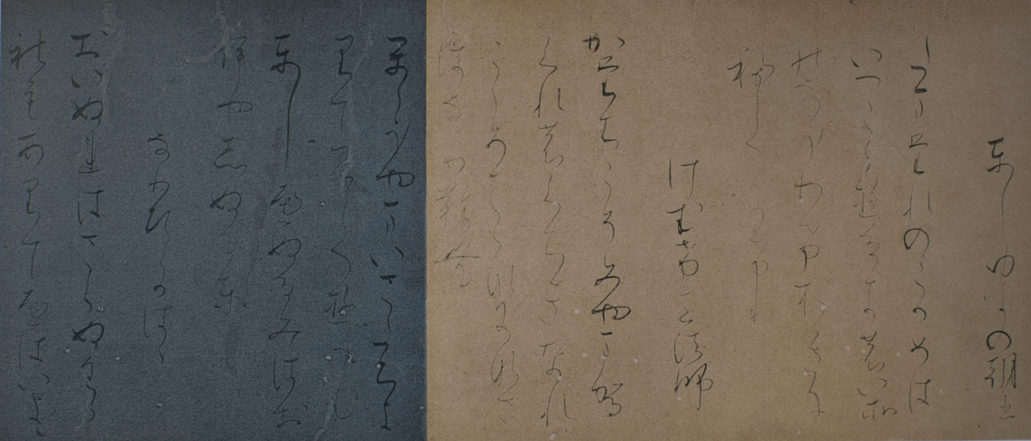 National Treasure of Japan